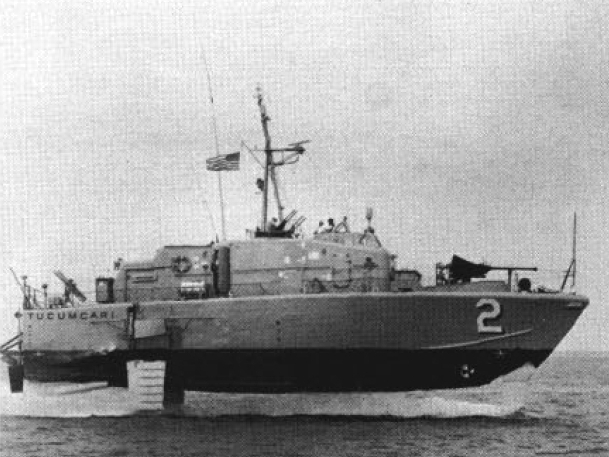 Aft view of the U.S. Navy hydrofoil patrol gunboat USS Tucumcari (PGH-2) underway near the Naval Amphibious Base Little Creek, Virginia (USA), circa 1971.